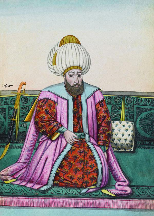 Sultan Murad II